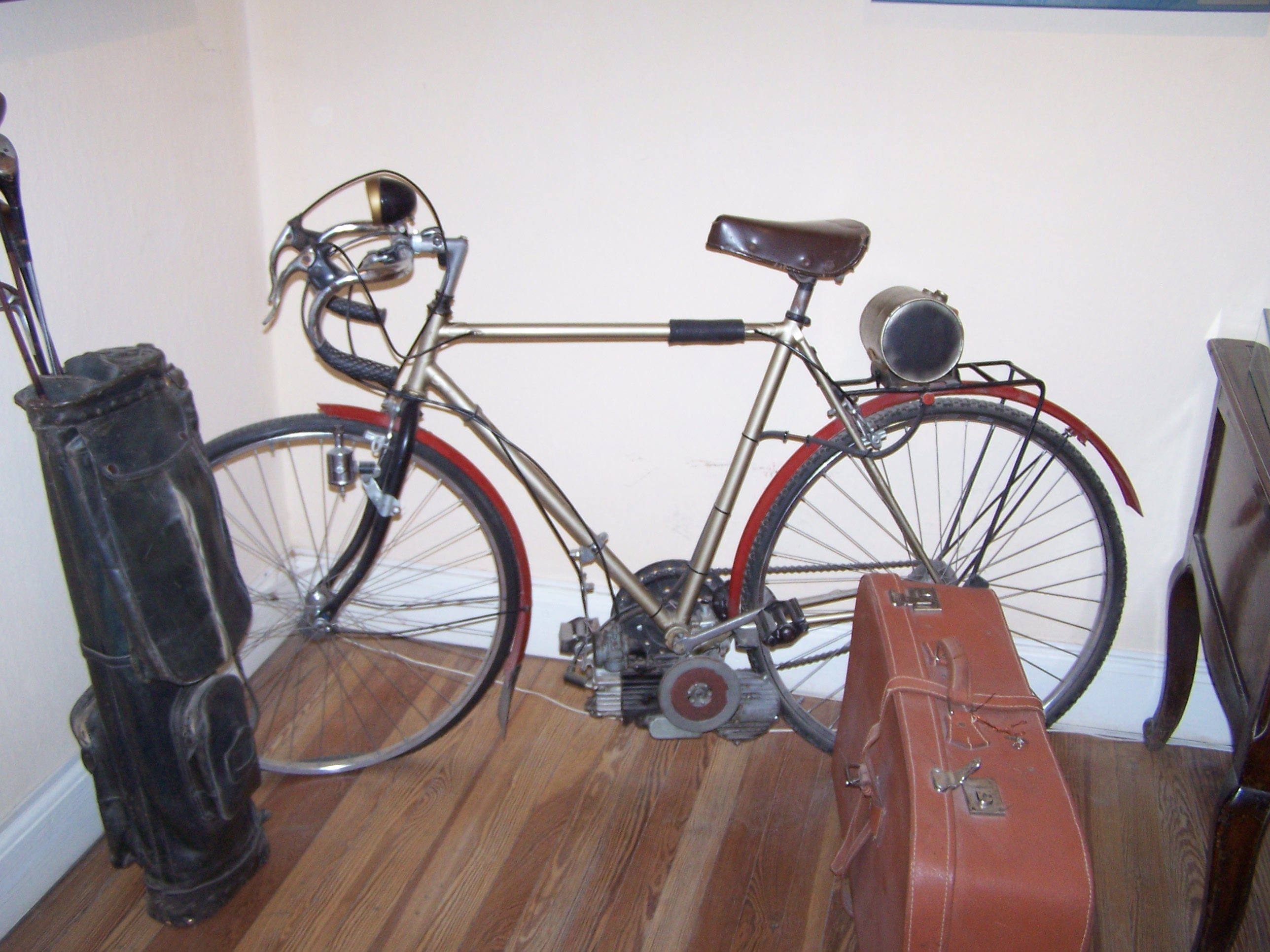 Che Guavera motorcycle, museum Alta Gracia, Argentina